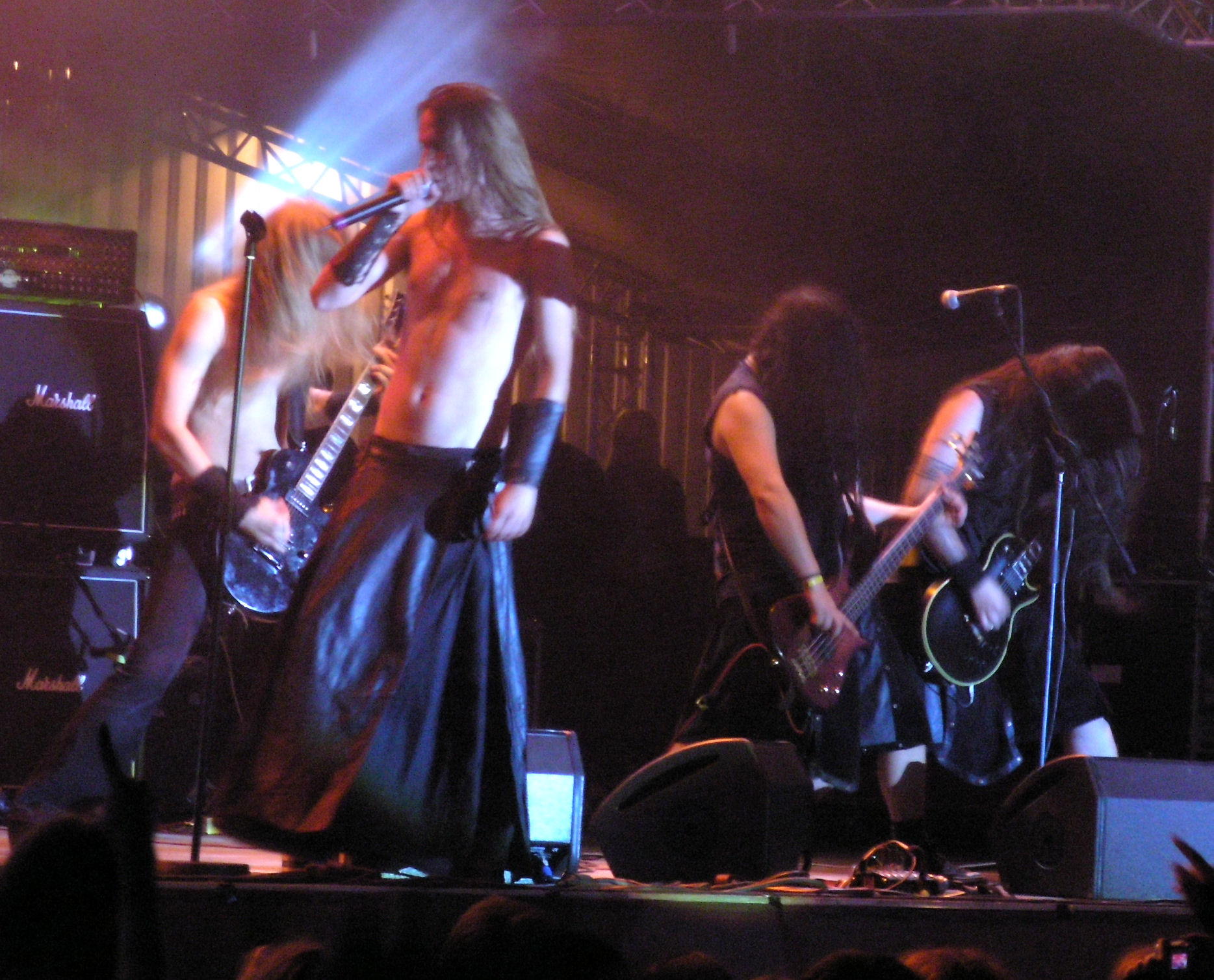 Music band Finntroll during Masters of Rock 2007 festival